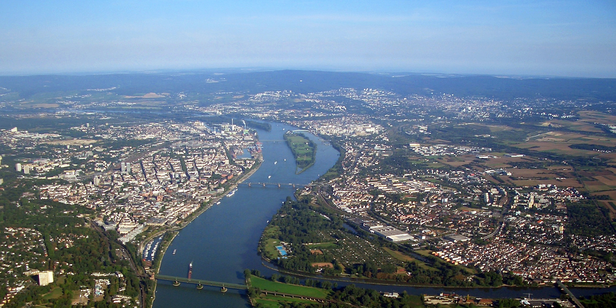 Aerial shot of Mainz, looking NW, with Wiesbaden and the Taunus in the background.